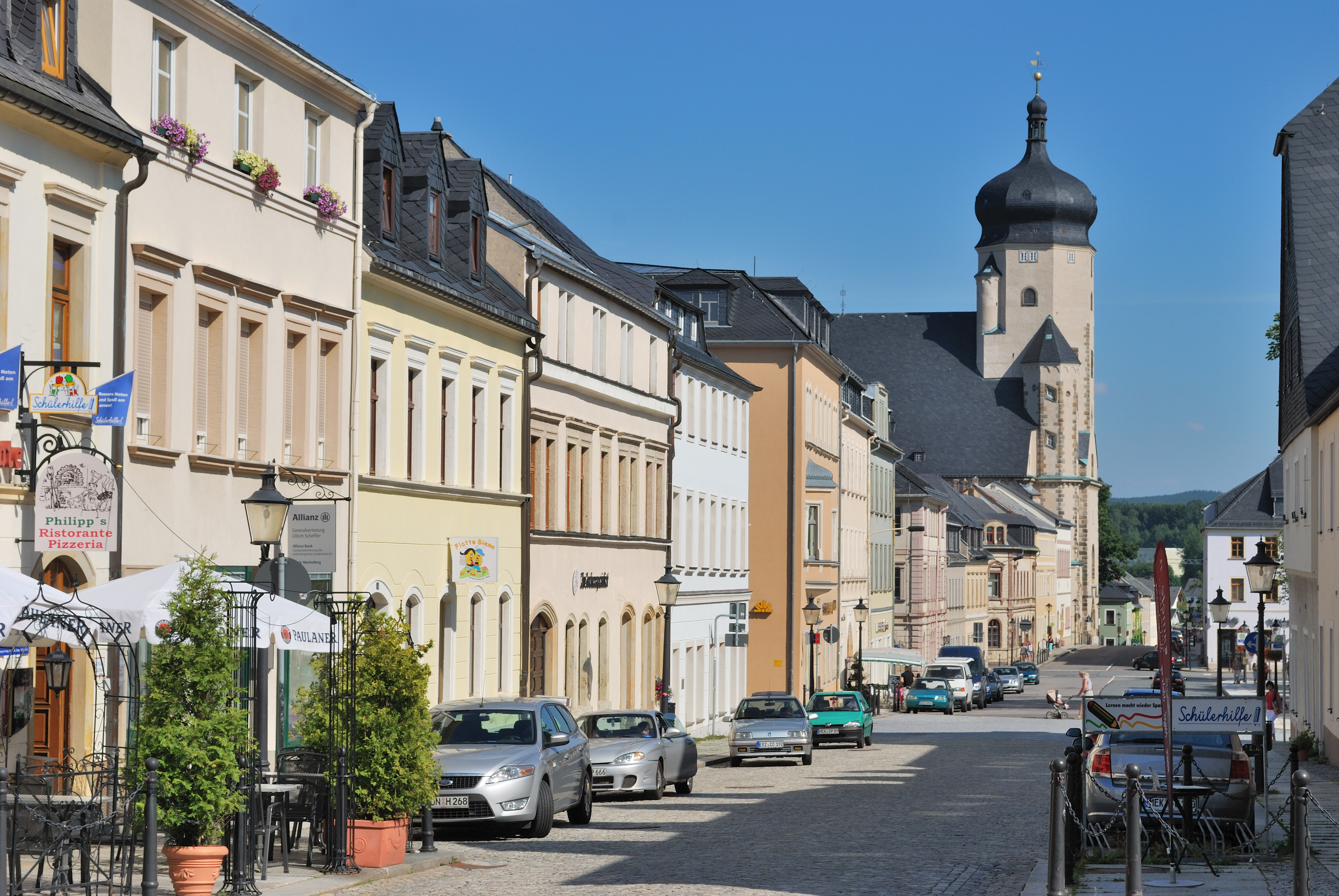 View through the Zschopauer Street to the church St. Marien in Marienberg, Saxony in Germany.